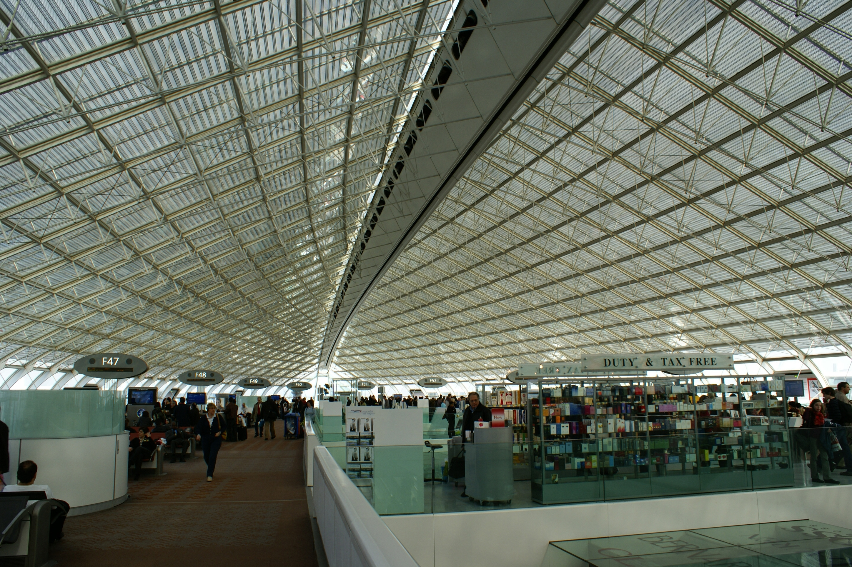 CDG TERMINAL 2F